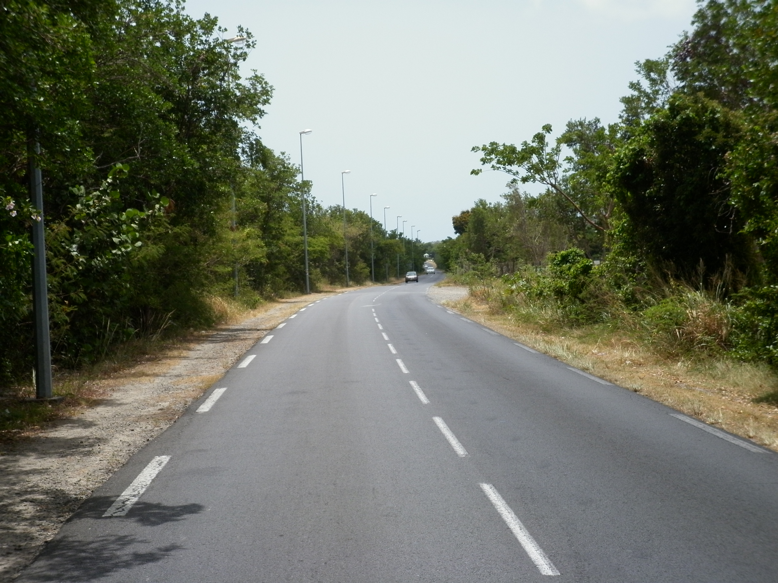 Rue de Sandy Ground, Collectivity of Saint Martin